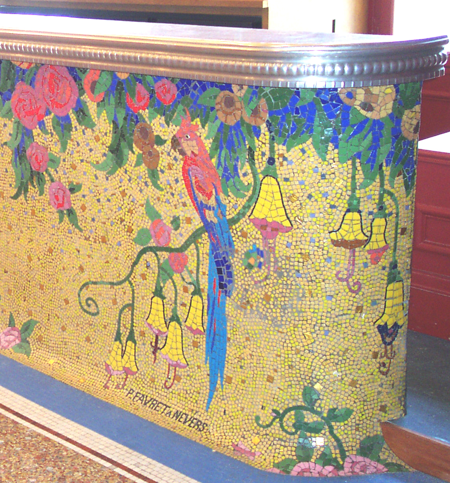 Bar in Montargis (France) (1925). Mosaics in émaux de Briare. Artist: Pietro Favret.